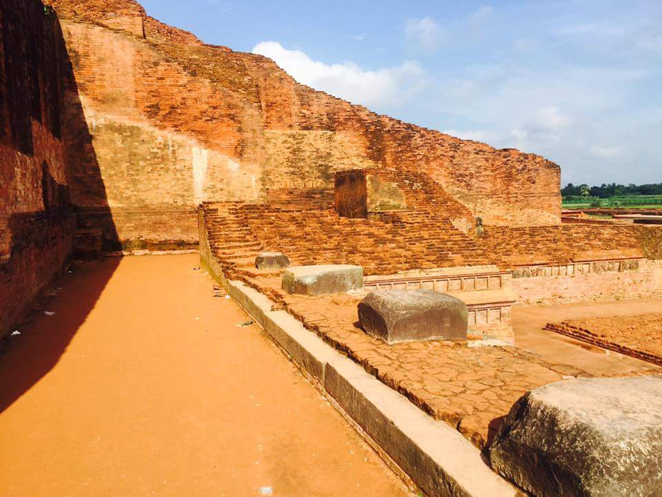 Somapura Mahavihara